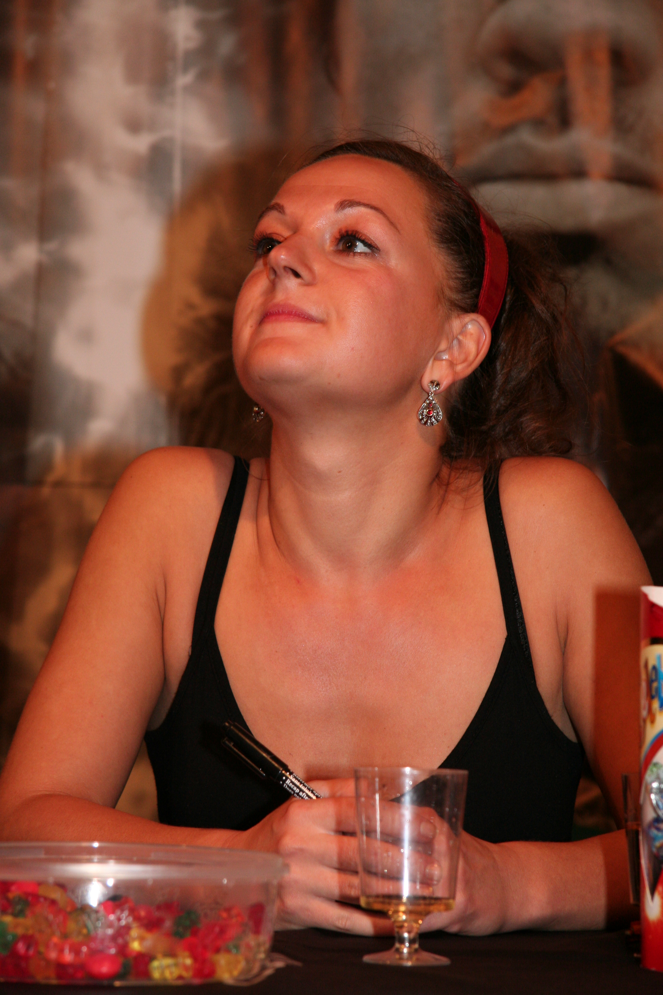 Rendezvous with the actors of the television serie Kaamelott at Fnac Saint-Lazare (Paris, France).